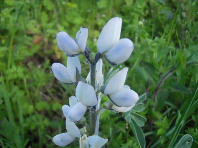 Flowers of wild Lupinus albus photographed near Grosseto, Tuscany, Italy.